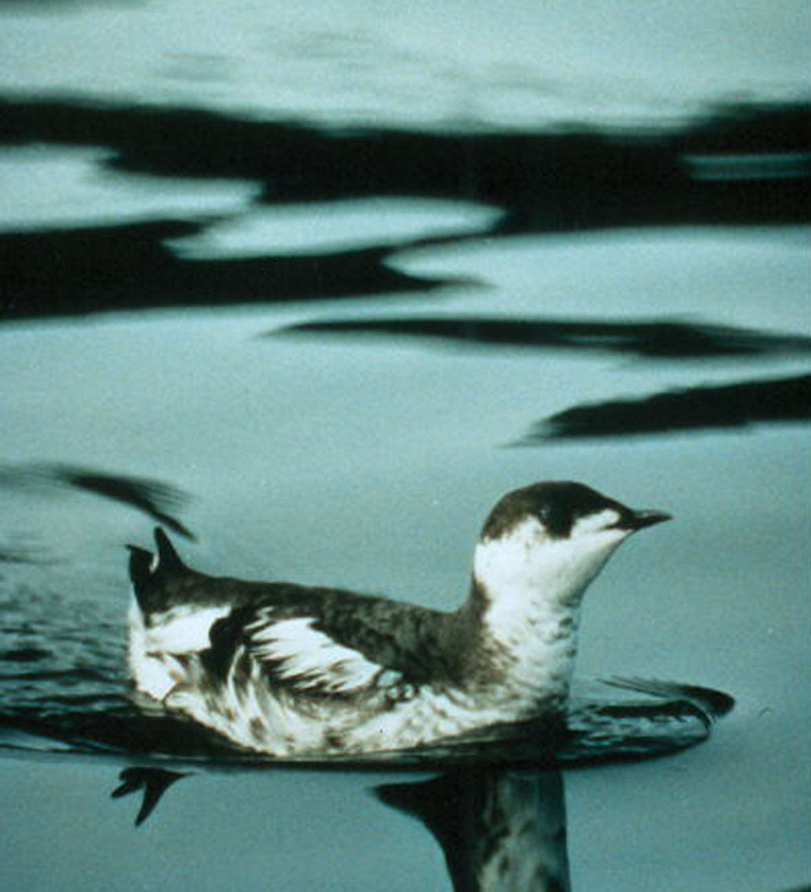 Marbled Murrelet (Brachyramphus marmoratus): photographed at Auke Bay marina, Alaska (12 miles north of Juneau). The last individual in the local population still showing extensive basic (winter) plumage in Spring -- perhaps unable to molt into full alternate (breeding) plumage due to physiological reasons?